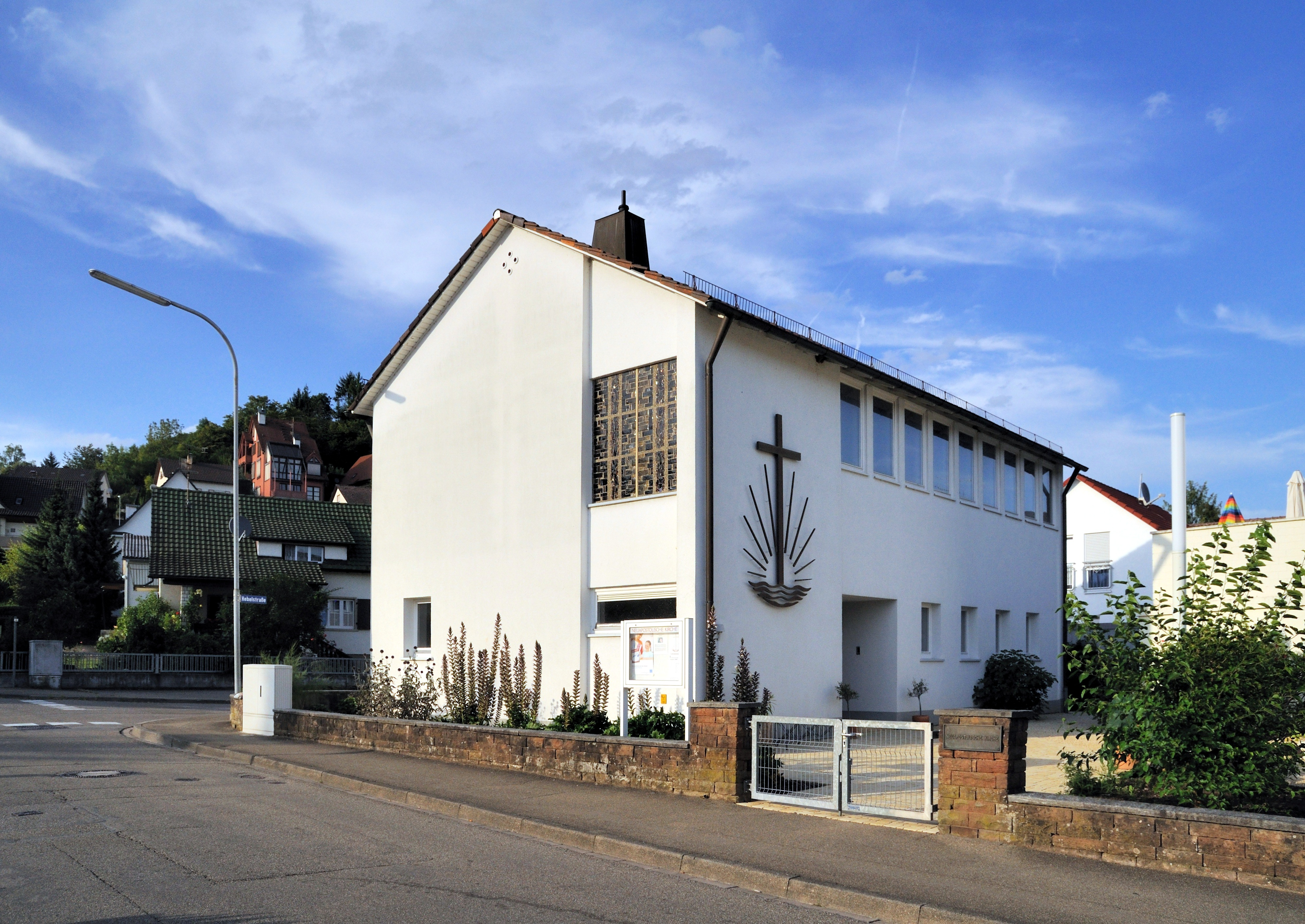 Lörrach-Hauingen: Newapostolic Church